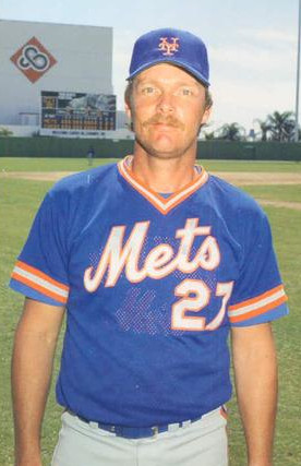 Professional baseball player Tim Corcoran